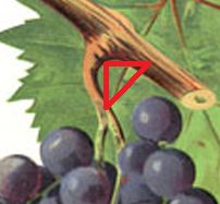 Cropping of Commons File:Blavette.jpg with right angle triangle added to show how the Calitor grape got its name for the way the peduncle of the grape bunch "twist" at a near right angle.